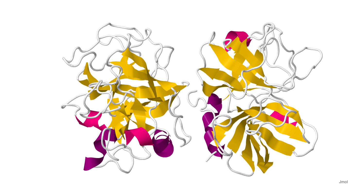 Factor D from human